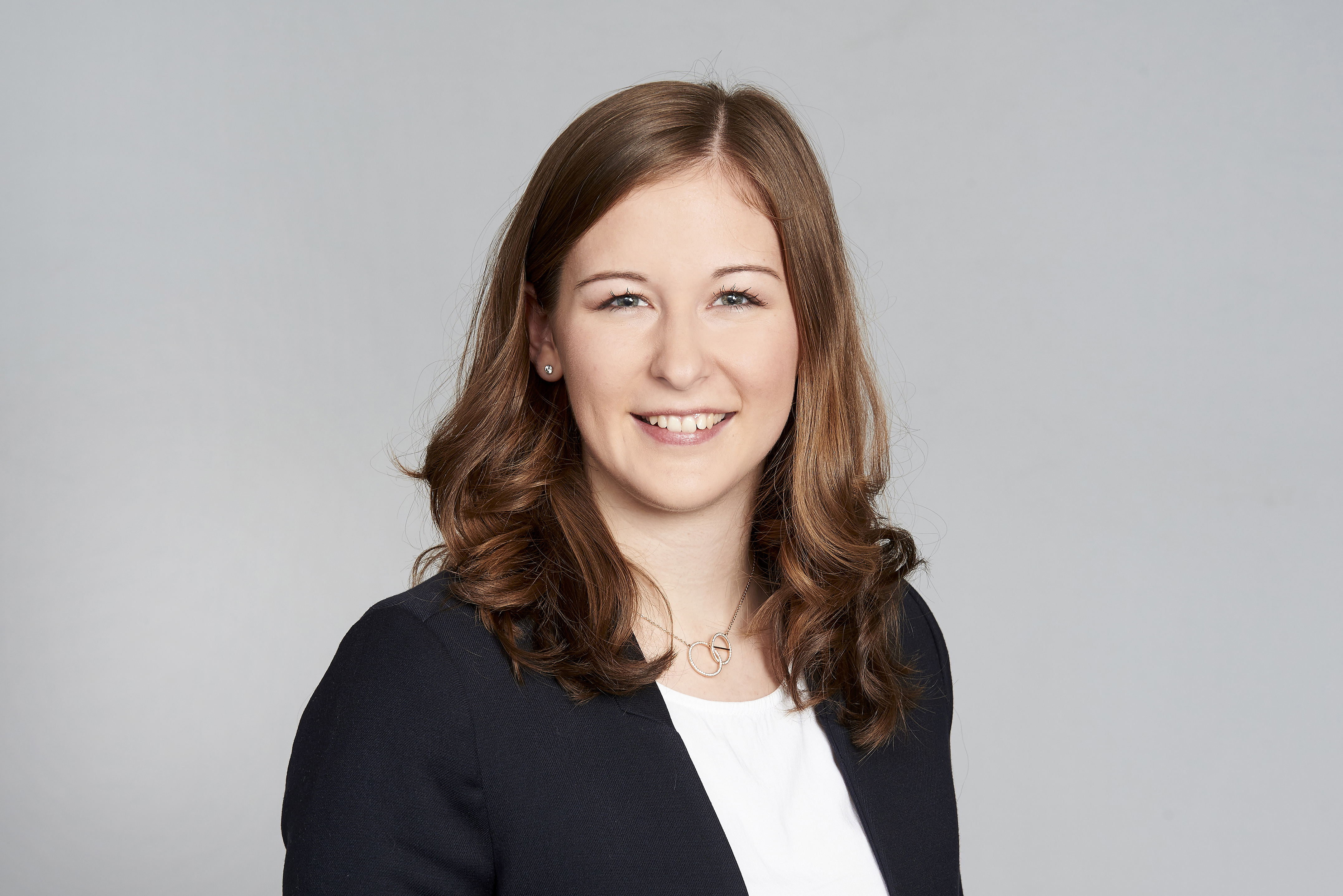 Nationalratsabgeordnete Claudia Plakolm